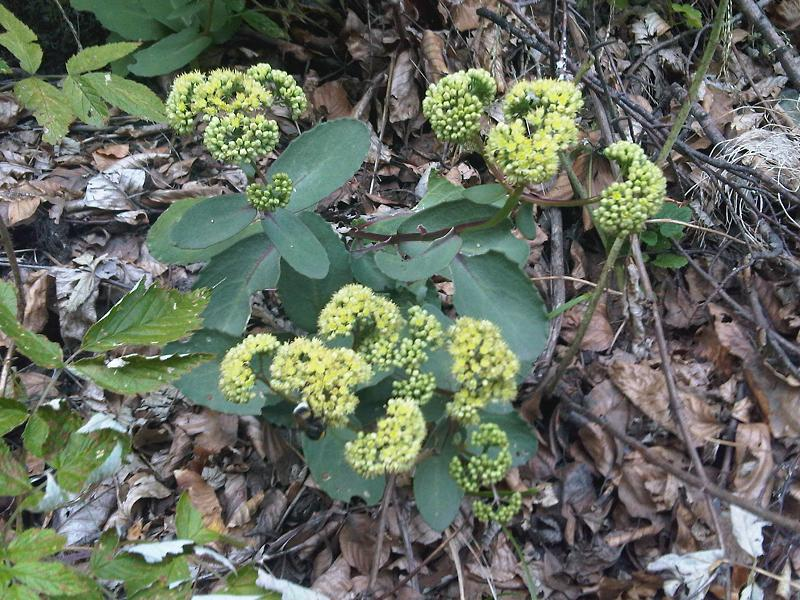 Hylotelephium maximum - syn: Sedum maximum in Transylvania.